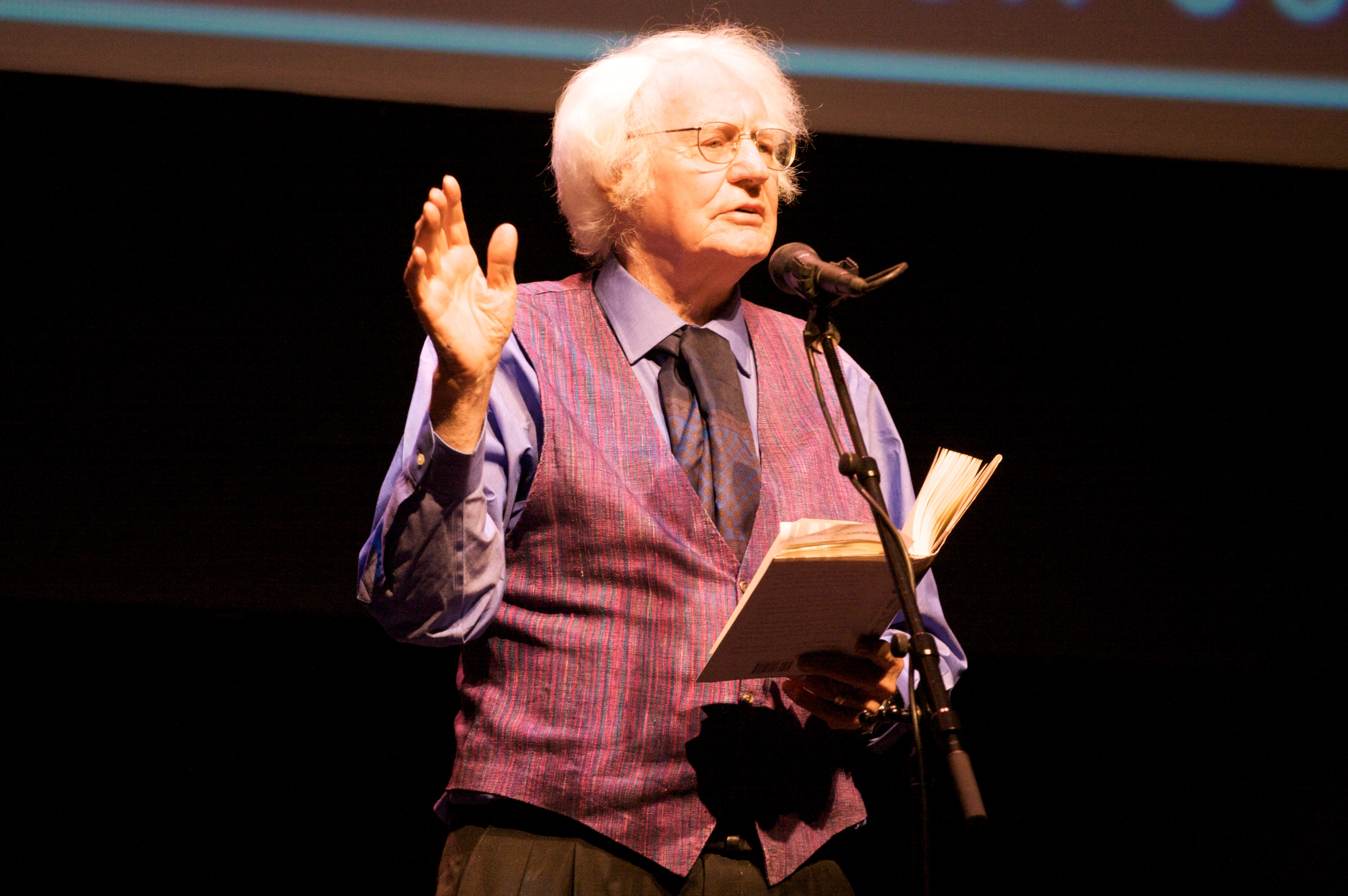 Robert Bly at the Poetry Out Loud Minnesota Finals at the Fitzgerald Theater